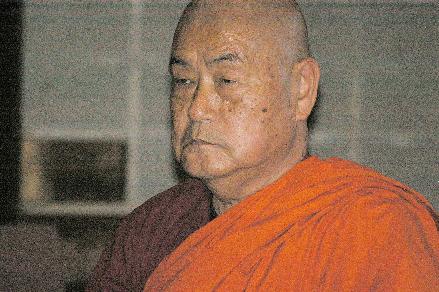 Rev.Surai Sasai at Gokokuji-temple,Tokyo. 7th.June,2009.